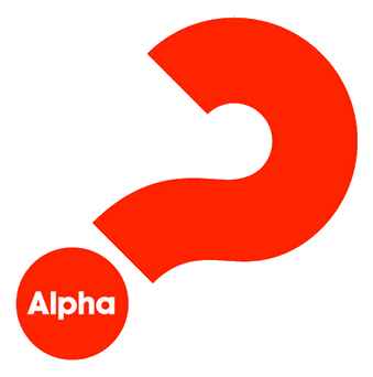 Logo of Alpha Course, a course which seeks to introduce the basics of the Christian faith.